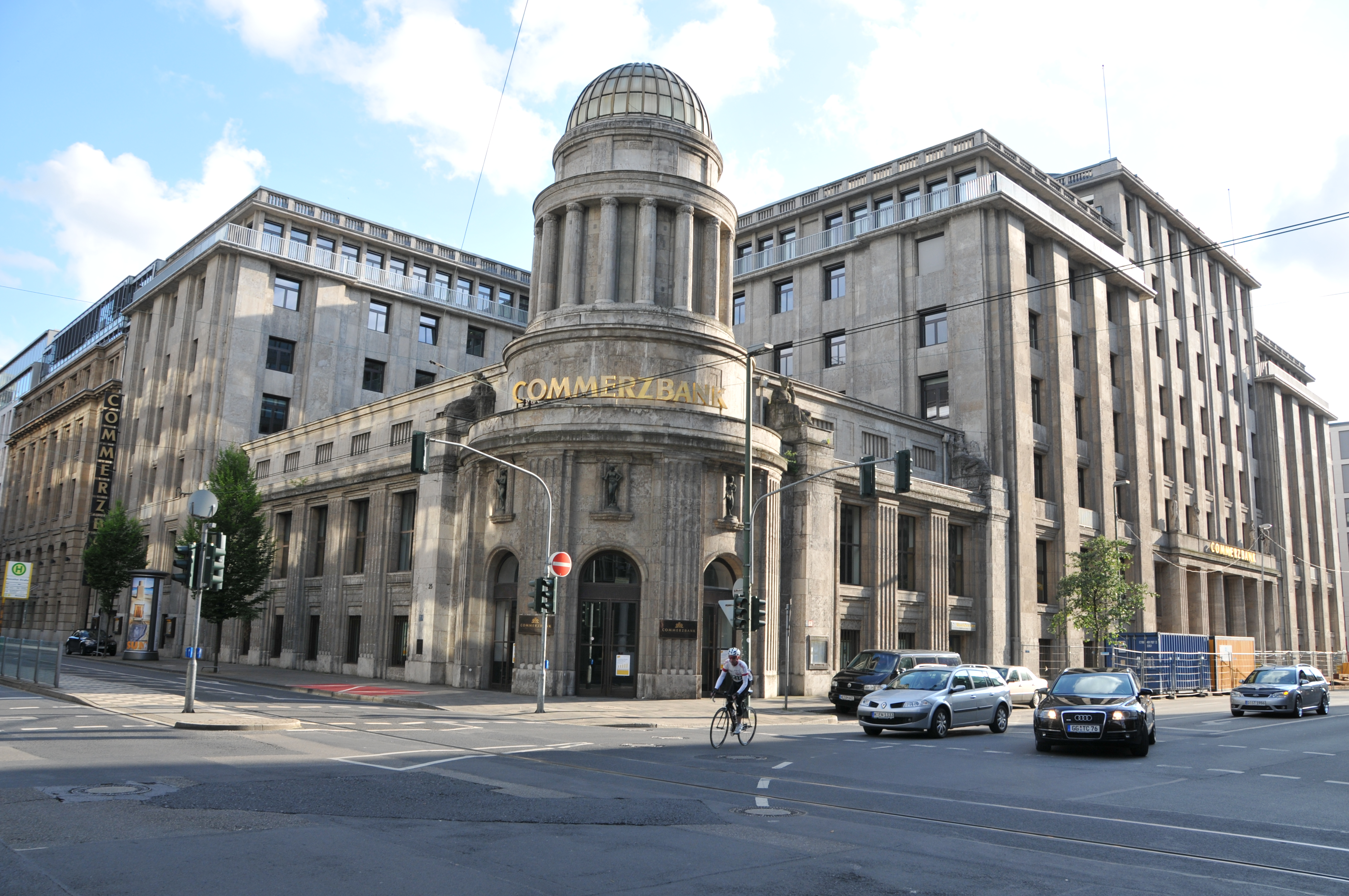 Building Breite Straße 25 in Düsseldorf, Germany